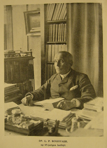 G.P. Rouffaer: Portrait photograph "Dr. G.P. Rouffaer, at age 65".